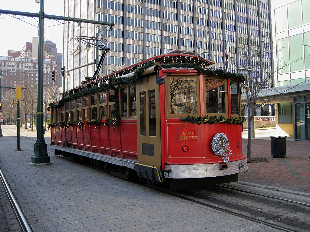 Memphis, Tennessee Trolley with Christmas decoration. This is car 1794, an ex-Rio de Janeiro open-sided trolley that was heavily rebuilt in Memphis before entering service there.